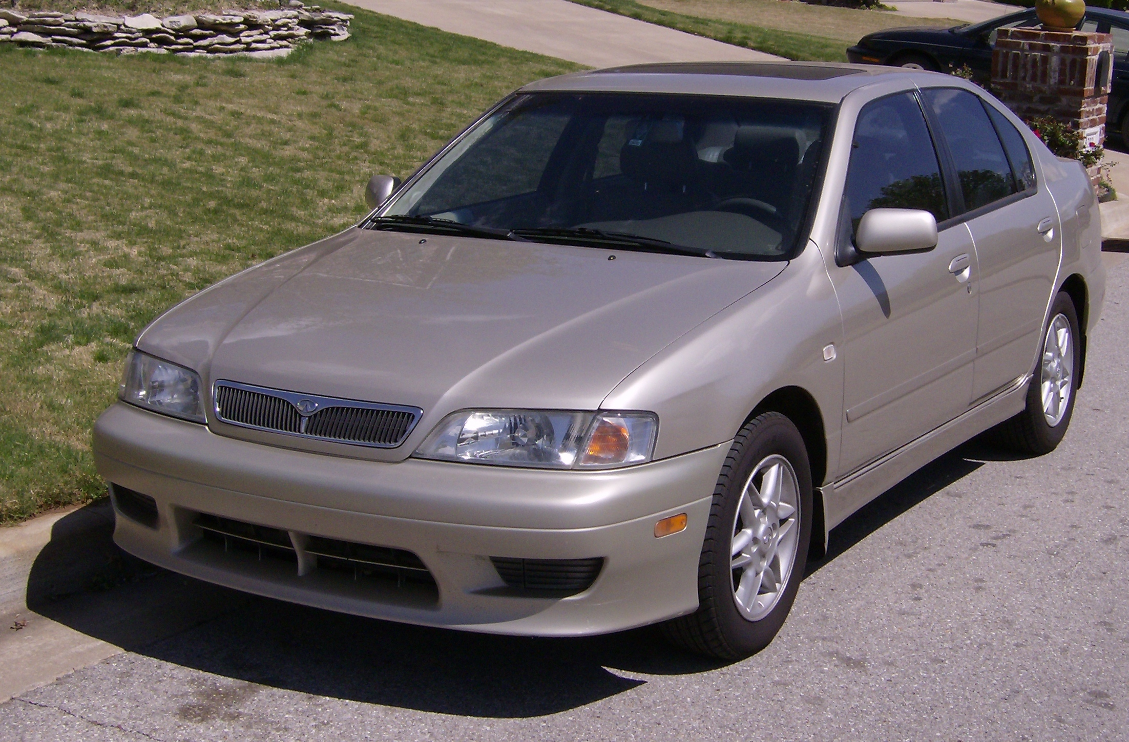 2002 Infiniti G20, photo taken by Mack20 of 7/24/2006.